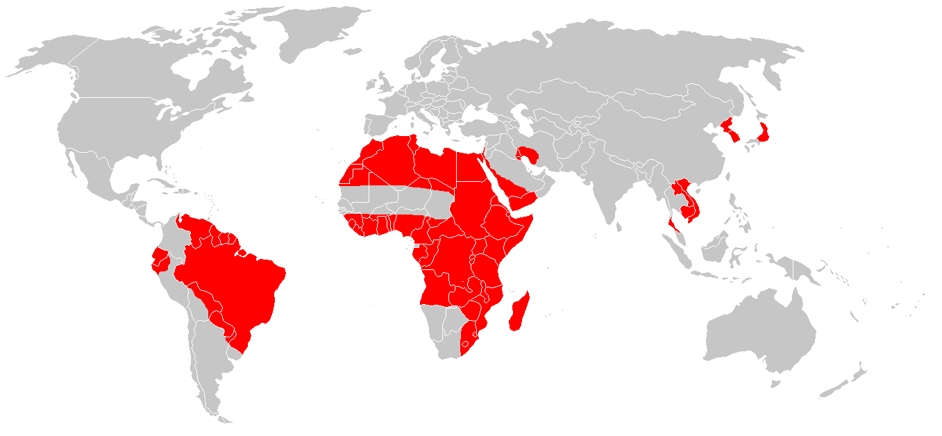 Countries with Schistosomiasis disease